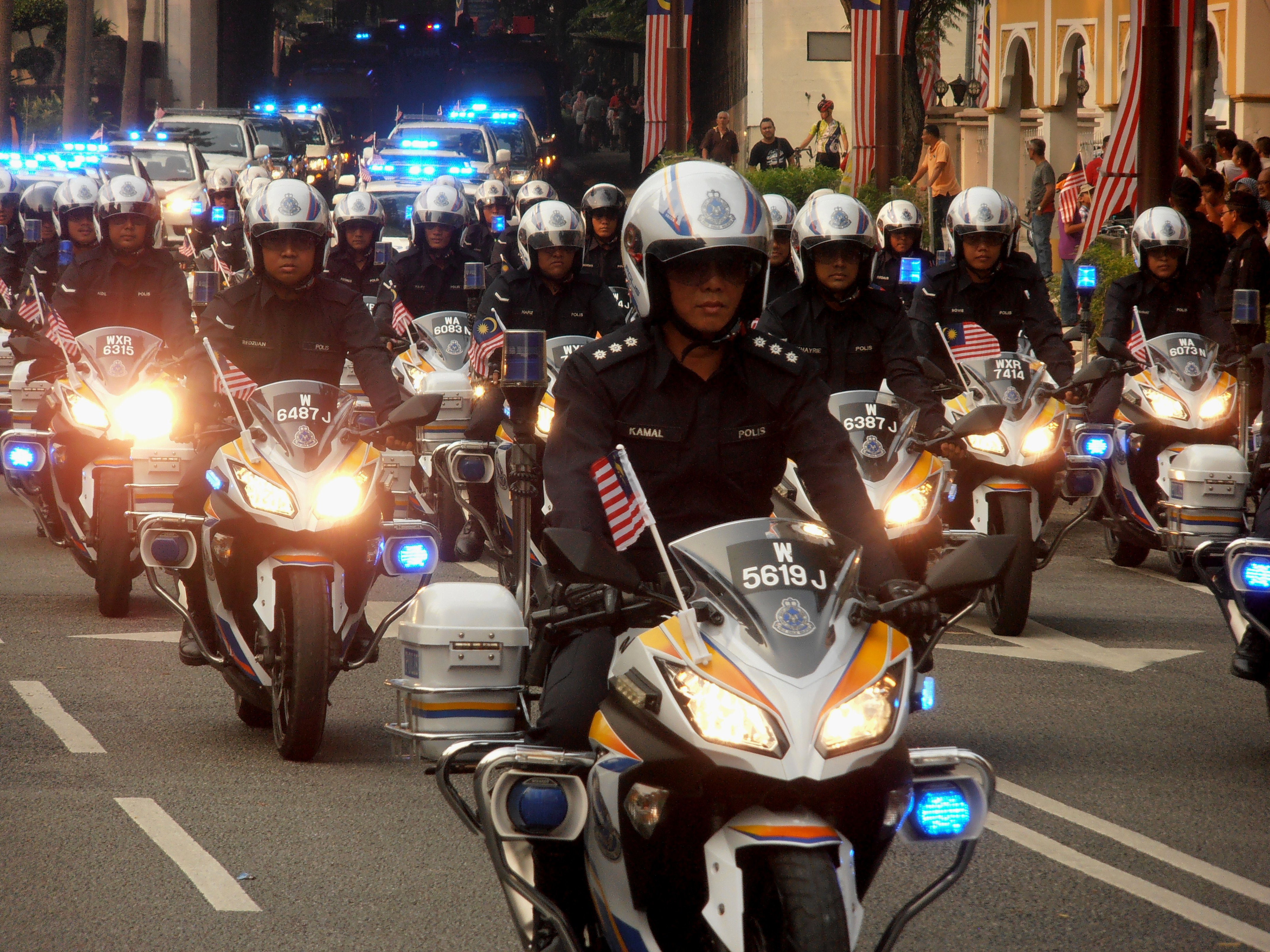 Royal Malaysia Police officers riding a Kawasaki KLX250 at the Sultan Abdul Samad Street for the 2015 National Day Parade in Kuala Lumpur.